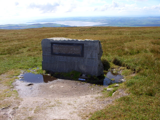 Memorial on the Summit of Cairnsmore of Fleet To all the Aircrews that lost their lives